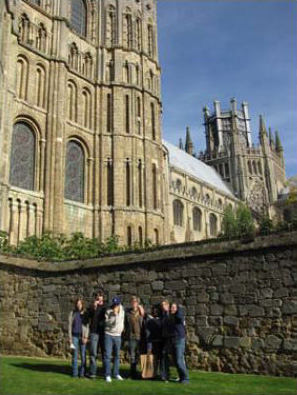 Shimer College students at Ely Cathedral during a with the Shimer-in-Oxford-Program